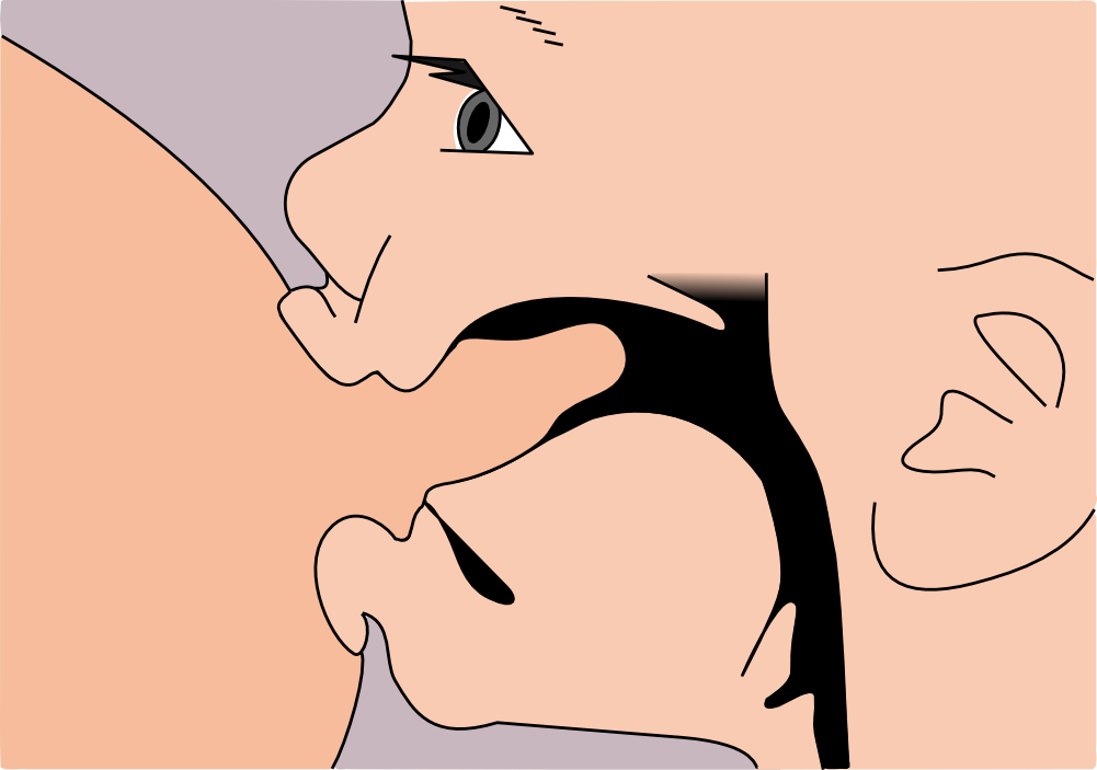 Breastfeeding cross section